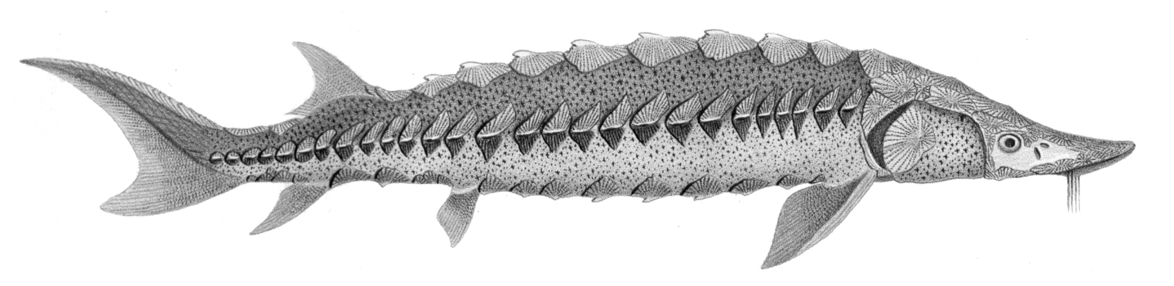 Acipenser oxyrinchus